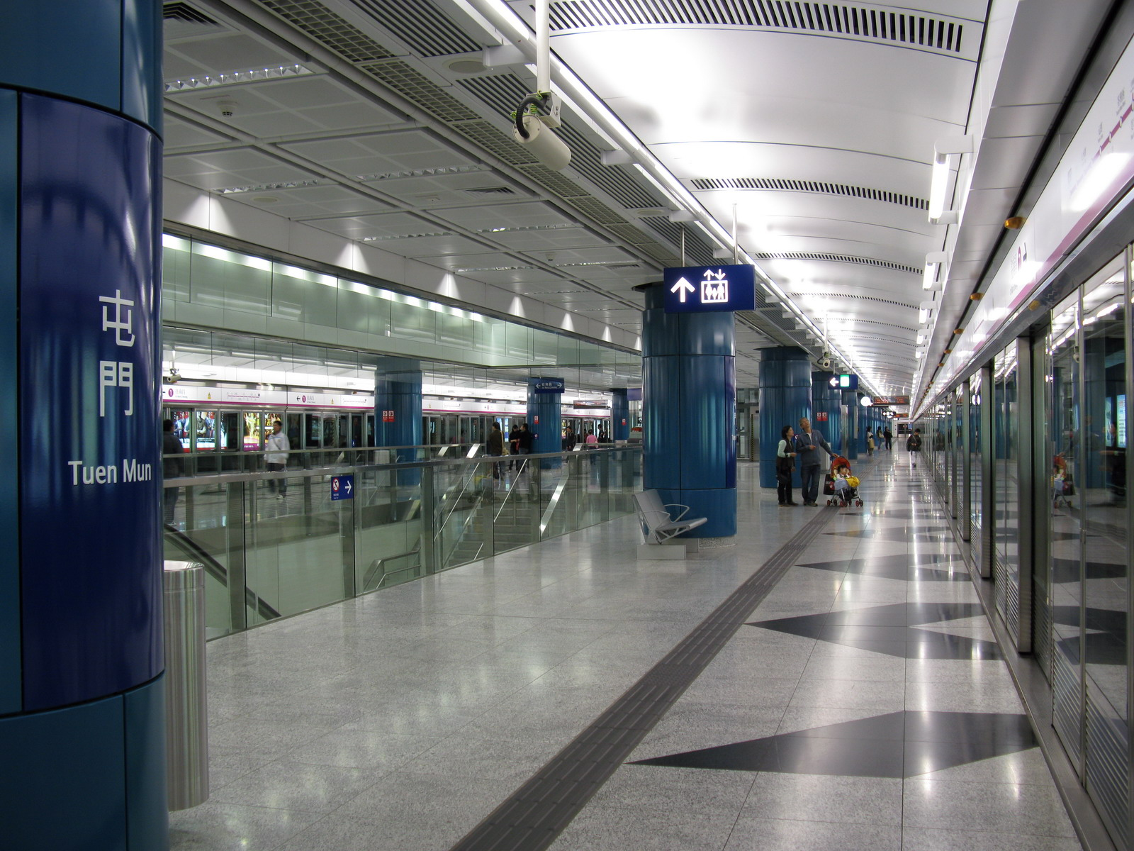 屯門站-西鐵綫月台 West Rail Line Platform of Tuen Mun Station